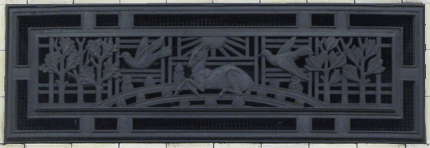 Ventilation panel,at Wood Green Underground station designed by Harold Stabler